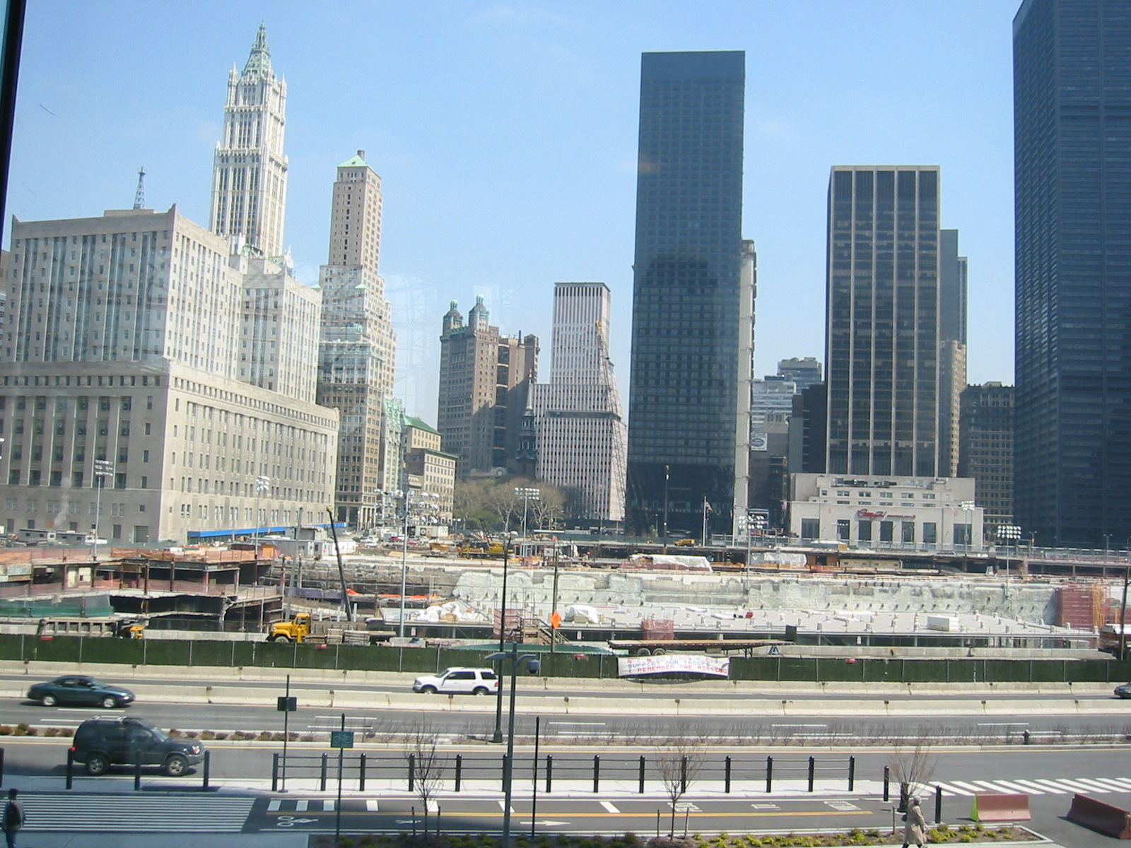 This picture was taken from the Financial Center.